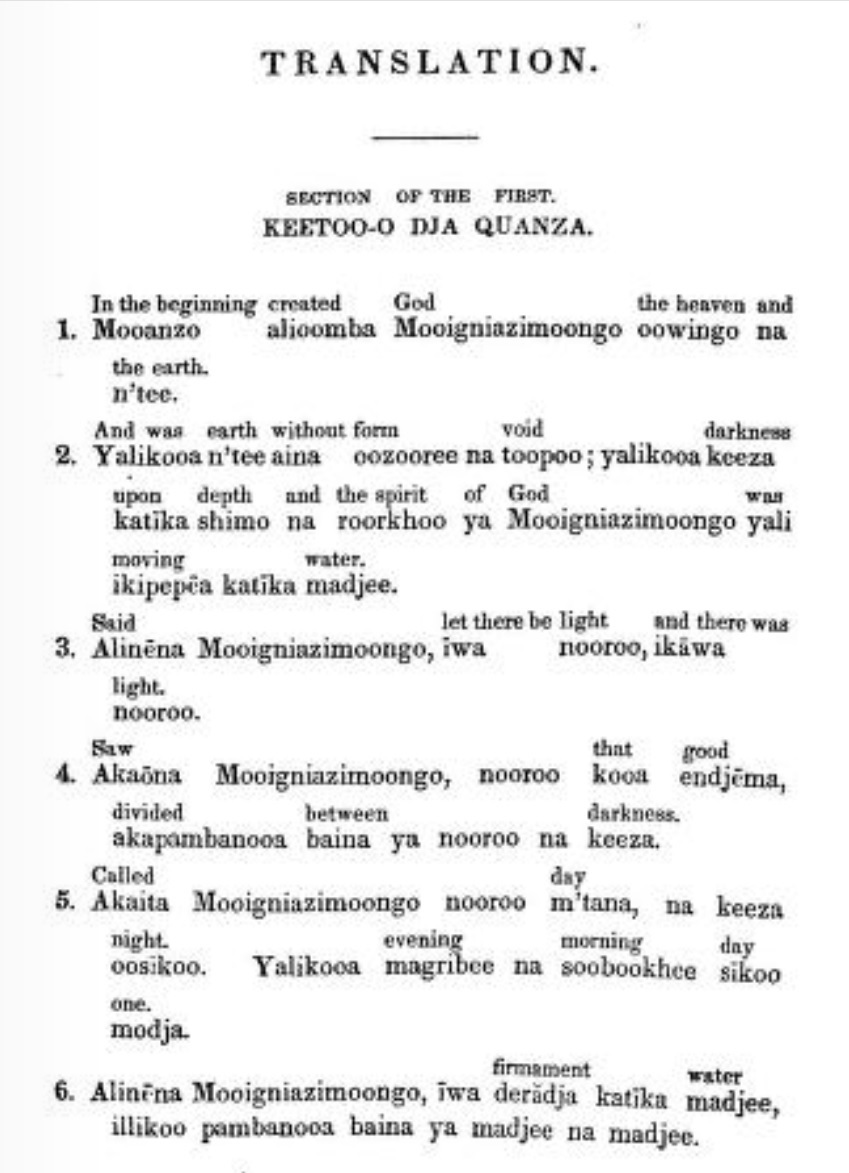 First page of Krapf`s Swahili Bible translation, showing Genesis 1 as published in Journal of the American Oriental Society, Vol.1; Boston 1849, p. 261 using English phonetic transcription of Swahili; possibly based on Mombasa area dialect (Kimvita) Kiswahili: Ukurasa wa kwanza wa tafsiri ya Biblia kwa Kiswahili wa Johann Ludwig Krapf alichoandika mwaka 1844 jinsi ilivyochapishwa mwaka 1849 katika Journal of the American Oriental Society, Vol.1; Boston 1849, p. 261 Krapf alitumia tahajia ya Kiingereza kwa kuandika Kiswahili ; inawezekana alitumia lahaja ya kimvita (eneo la Mombasa) si Kiswahili sanifu jinsi ilivyo kawaida leo hii